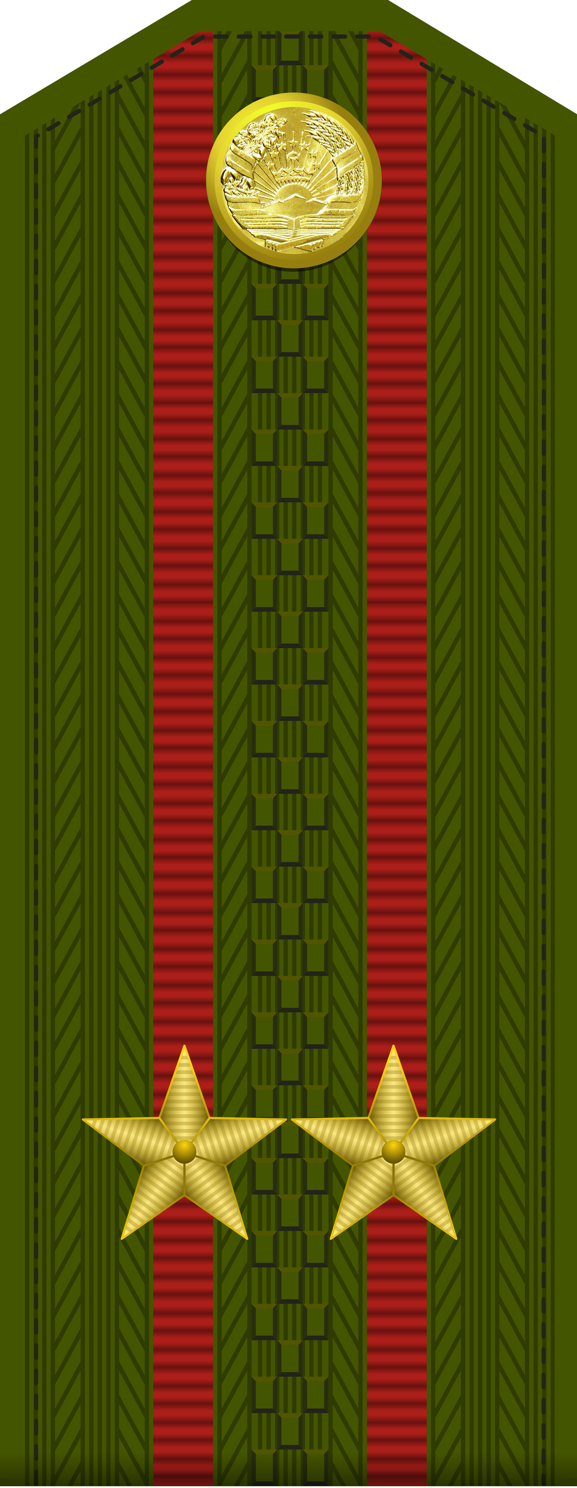 Тоҷикӣ: Rank insignia of Lieutenant Colonel for the Tajikistan Army